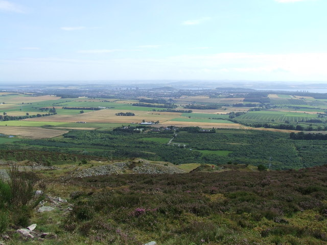 Looking south from Balluderon Hill in the Sidlaws, towards Dundee